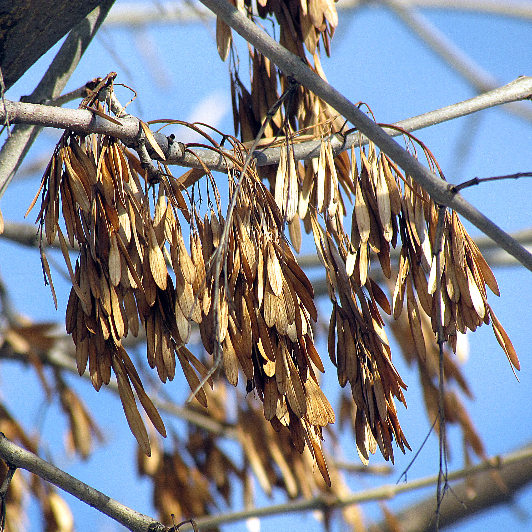 Fraxinus americana fruit